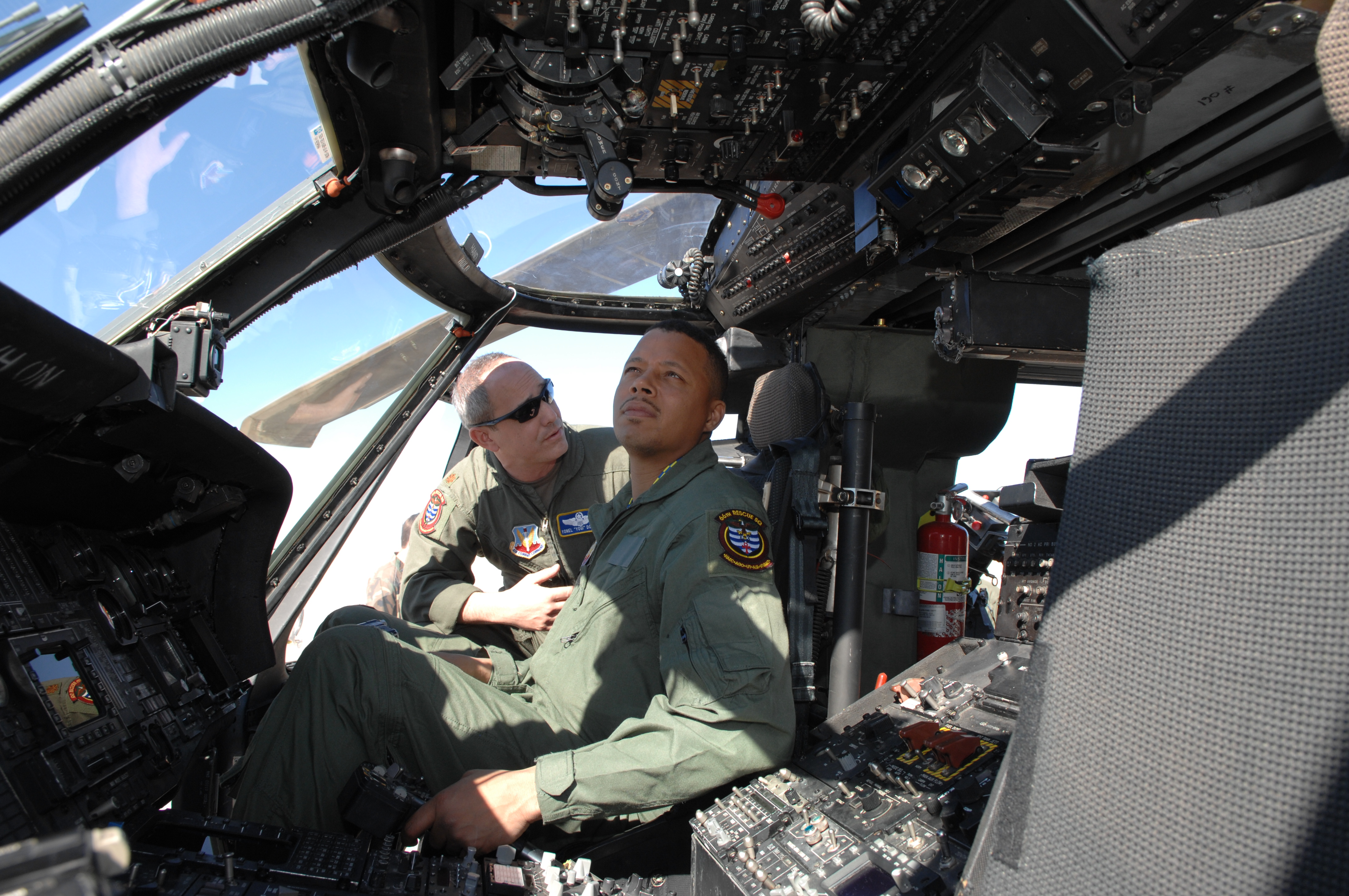 U.S. Air Force Maj. Yonel Dorelis, left, a pilot with the 66th Rescue Squadron, briefs actor Terrence Howard on the HH-60G Pave Hawk helicopter at Nellis Air Force Base, Nev., March 16, 2007. Howard is researching his role as a U.S. Airman in the film Iron Man, which begins filming soon. VIRIN: 070316-F-1460M-003